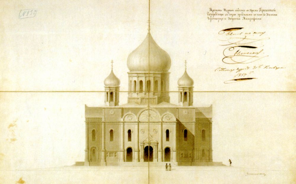 Konstantin Thon. Drawing of the Semyonovsky Regiment cathedral, endorsed by Nicholas I